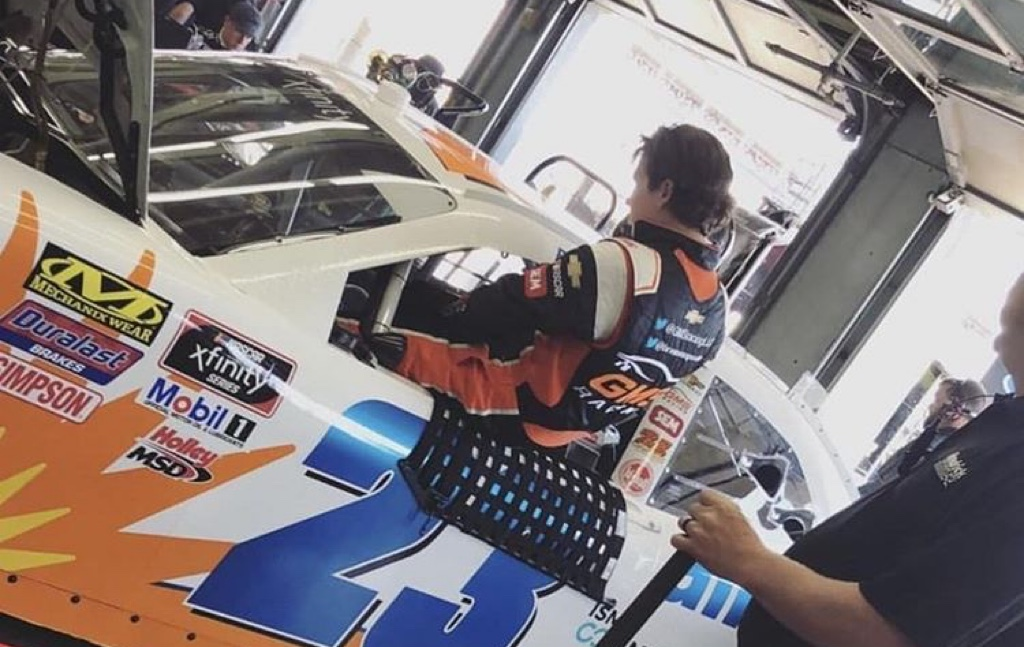 Brennan Poole during a test at Charlotte in May of 2018